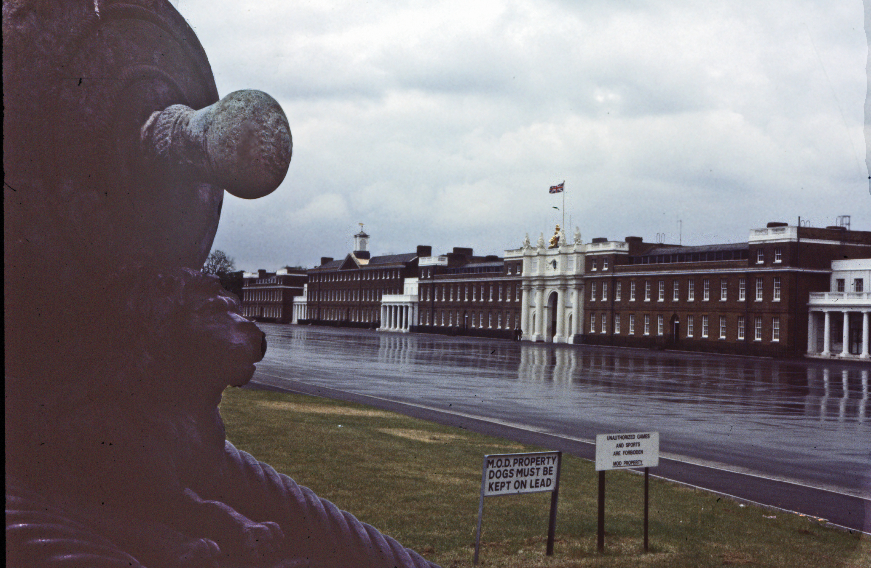 Not an amazing picture I know but it has an interesting story. After taking it the army "garrison patrol" tore up to me in a jeep and demanded an explanation for my photography!!!!!? Mum pleading that "He is not IRA he is my son" did little to help" Memories of this encounter came back to me every time some Jobsworth accosts me for photographing trains. . . . Slide scan taken12/6/90